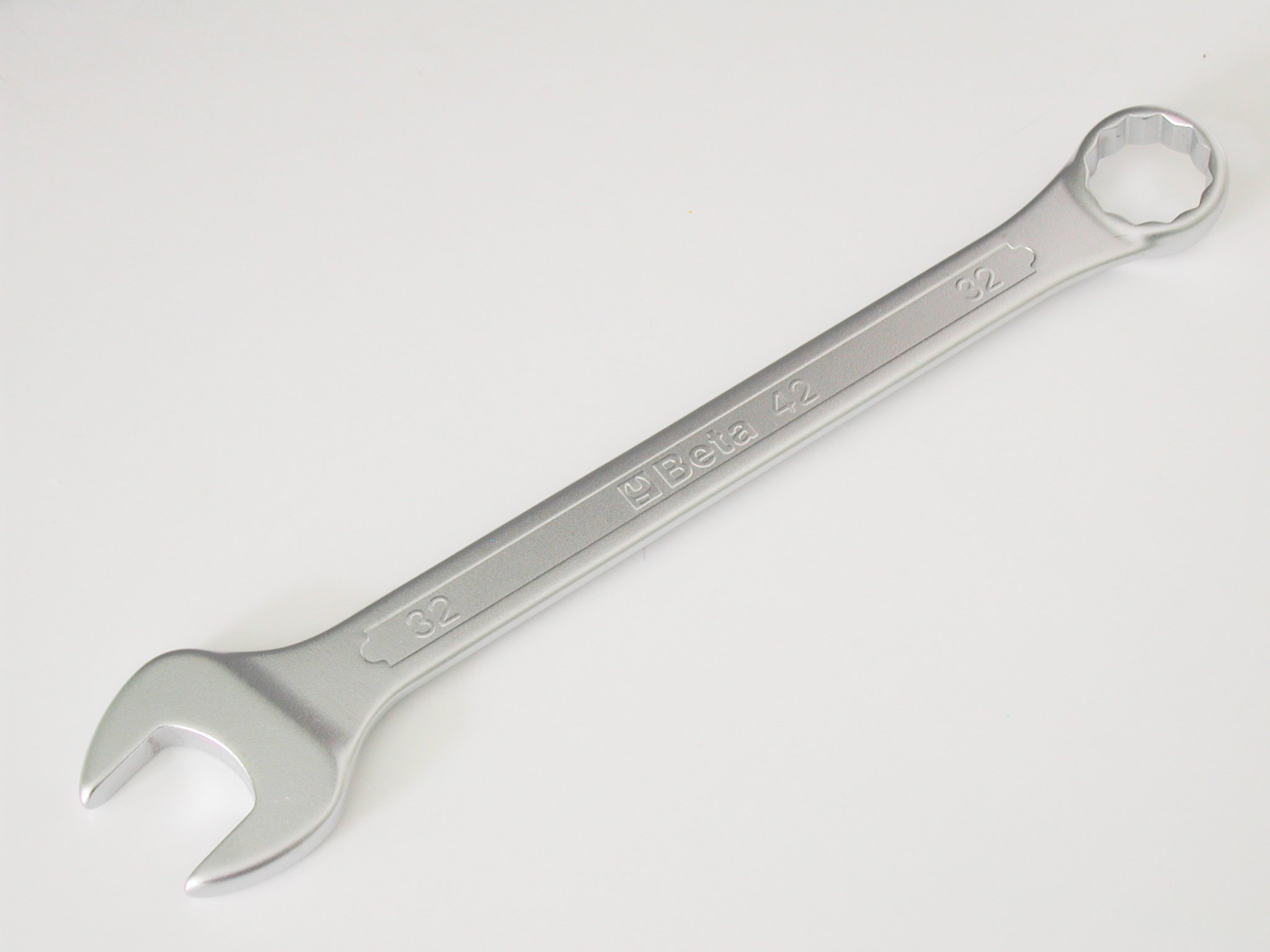 32 mm combined wrench, model 42 of Beta Utensili.